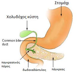 picture of the pancreas